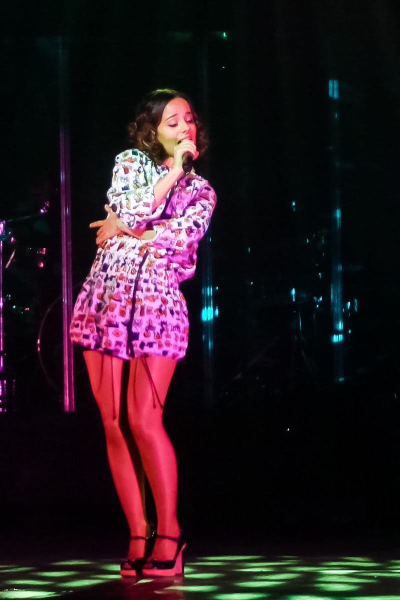 Alizée in concert in Moscow during her Psychédélices tour (18th of March, 2008)